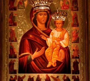 Rudkov miraculous icon of the Blessed Virgin Mary